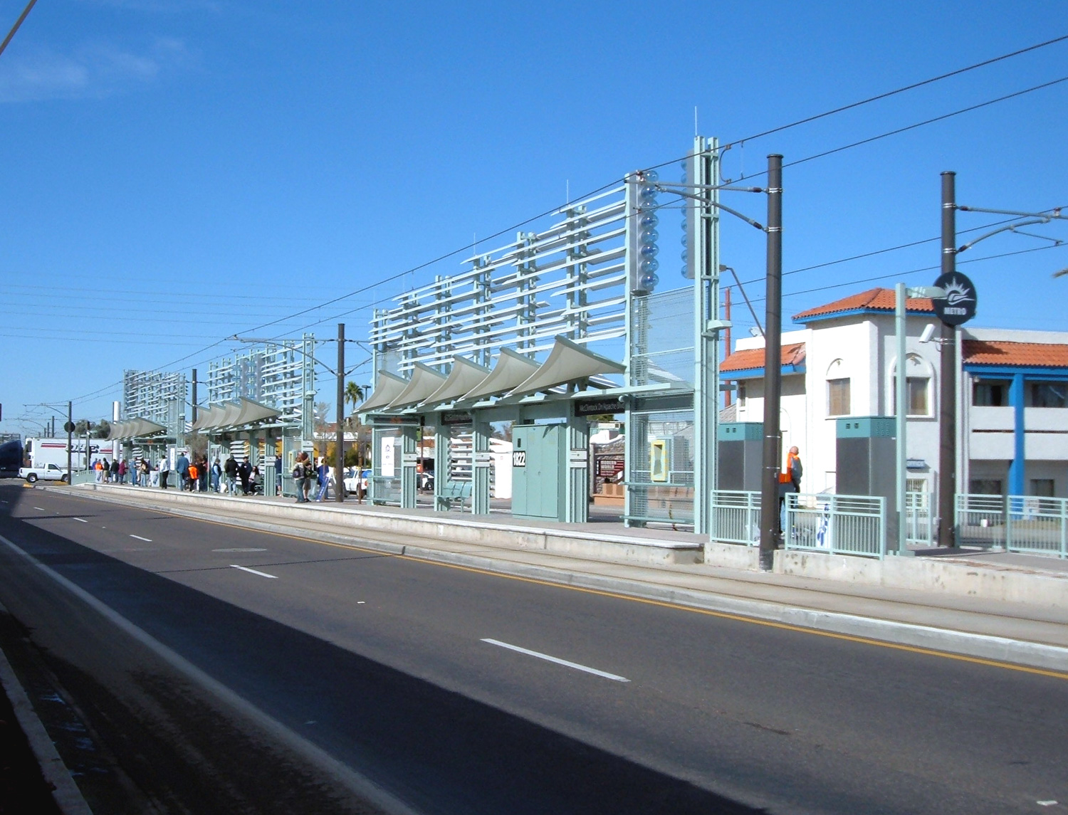 Photograph of the McClintock (or Apache at McClintock) Station of METRO Light Rail that serves the Phoenix area, Arizona, USA. This photograph was taken during the light rail's grand opening celebration on December 27, 2008.